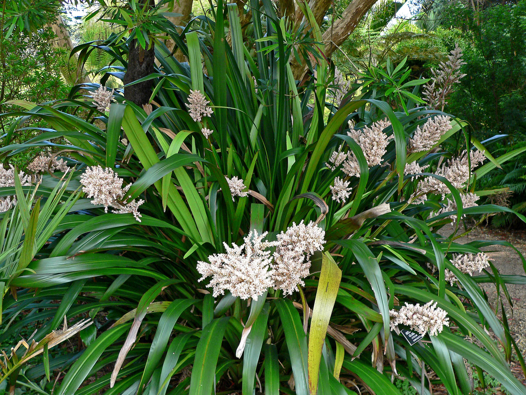 Photo of Helmholtzia glaberrima at the San Francisco Botanical Garden